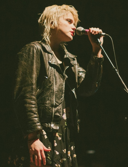 Sky Ferreira performing Sept. 24, 2013